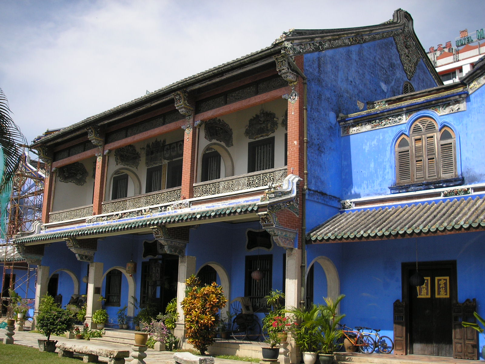 Image of the Cheong Fatt Tze Mansion (also known as the "Blue Mansion") in George Town, Penang. The mansion received a UNESCO prize for best conservation.